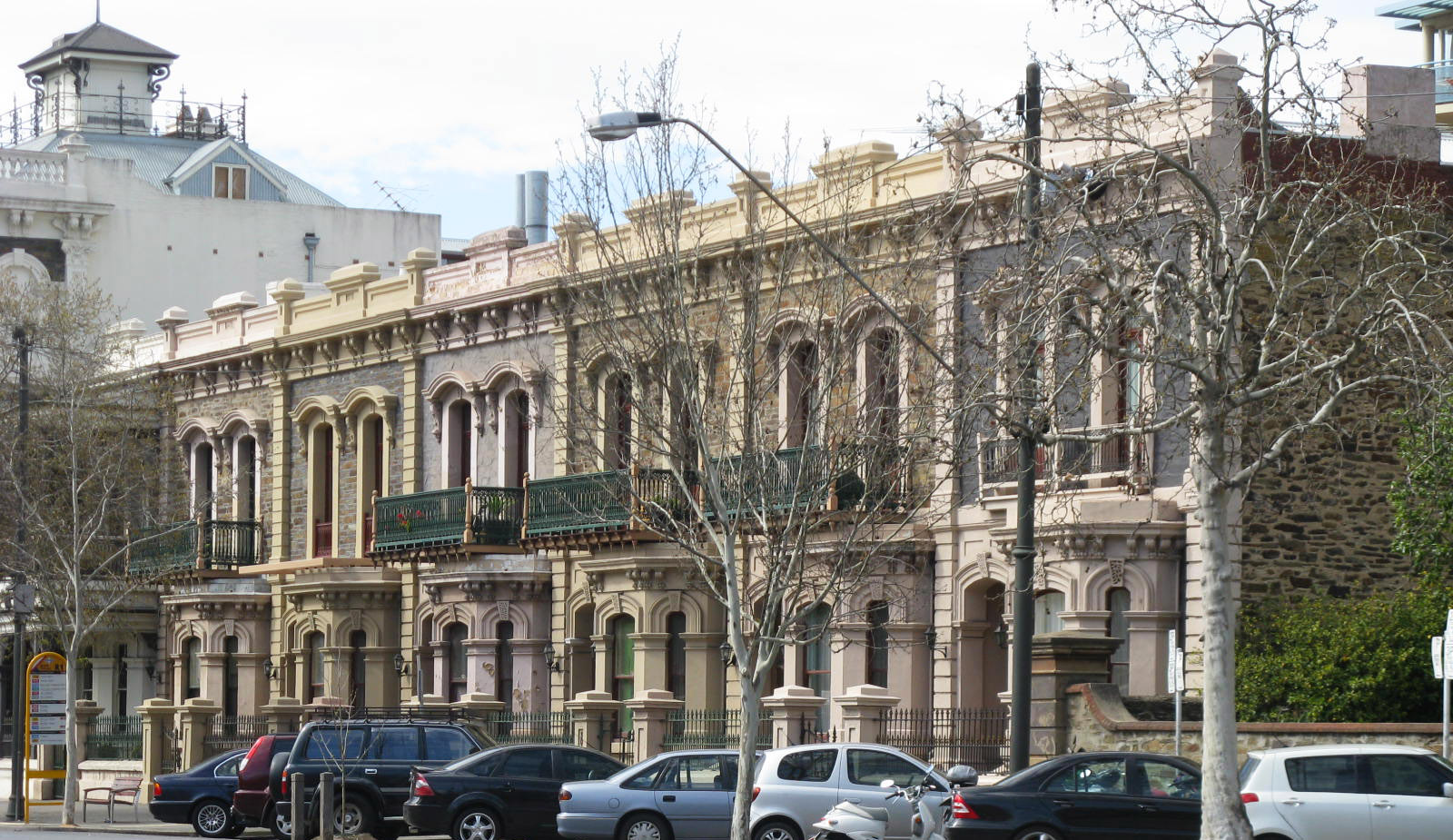 Terrace Housing, east end of North Terrace, Winter 2008.